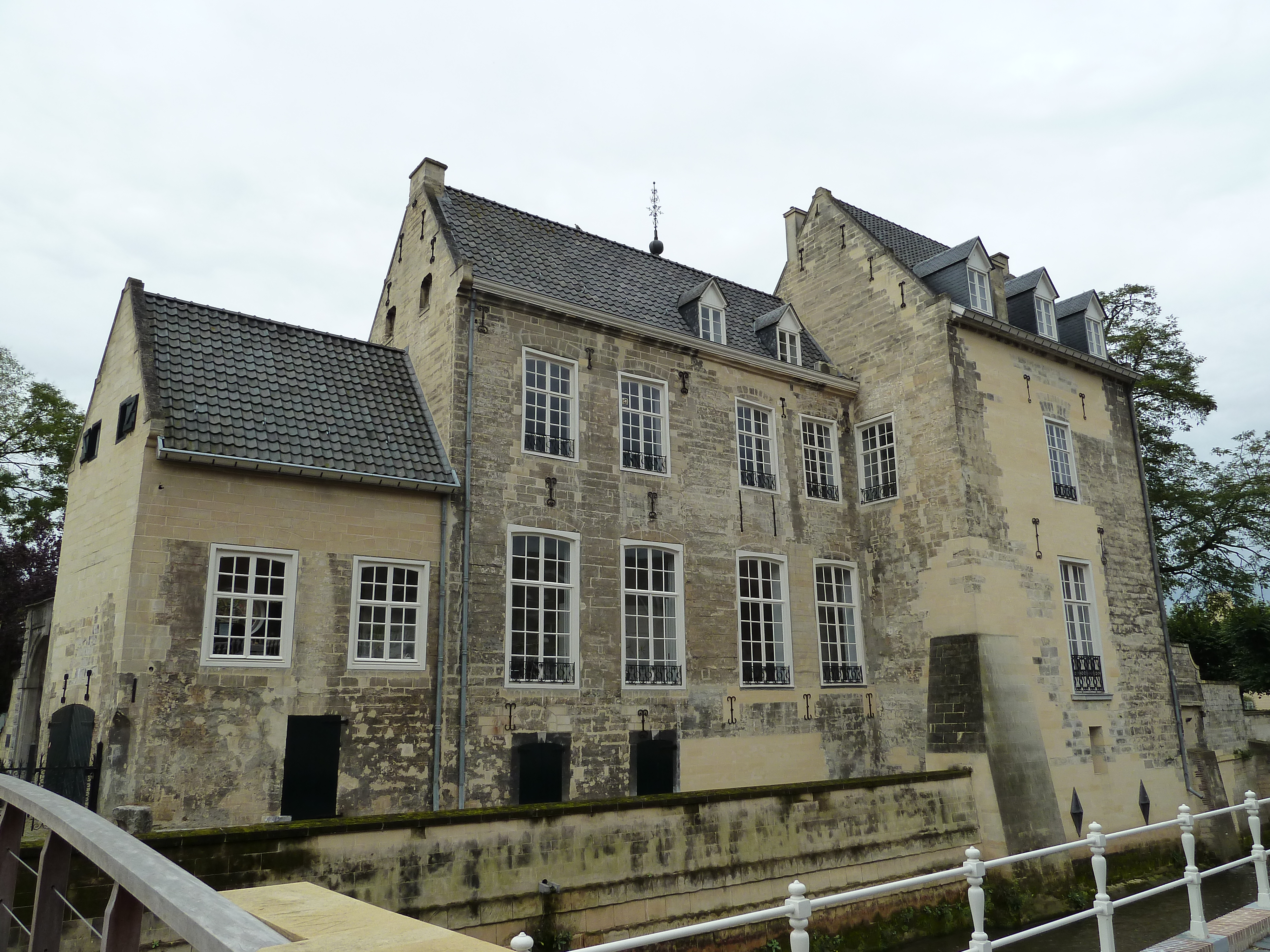 Castle Den Halder, Valkenburg, Limburg, the Netherlands